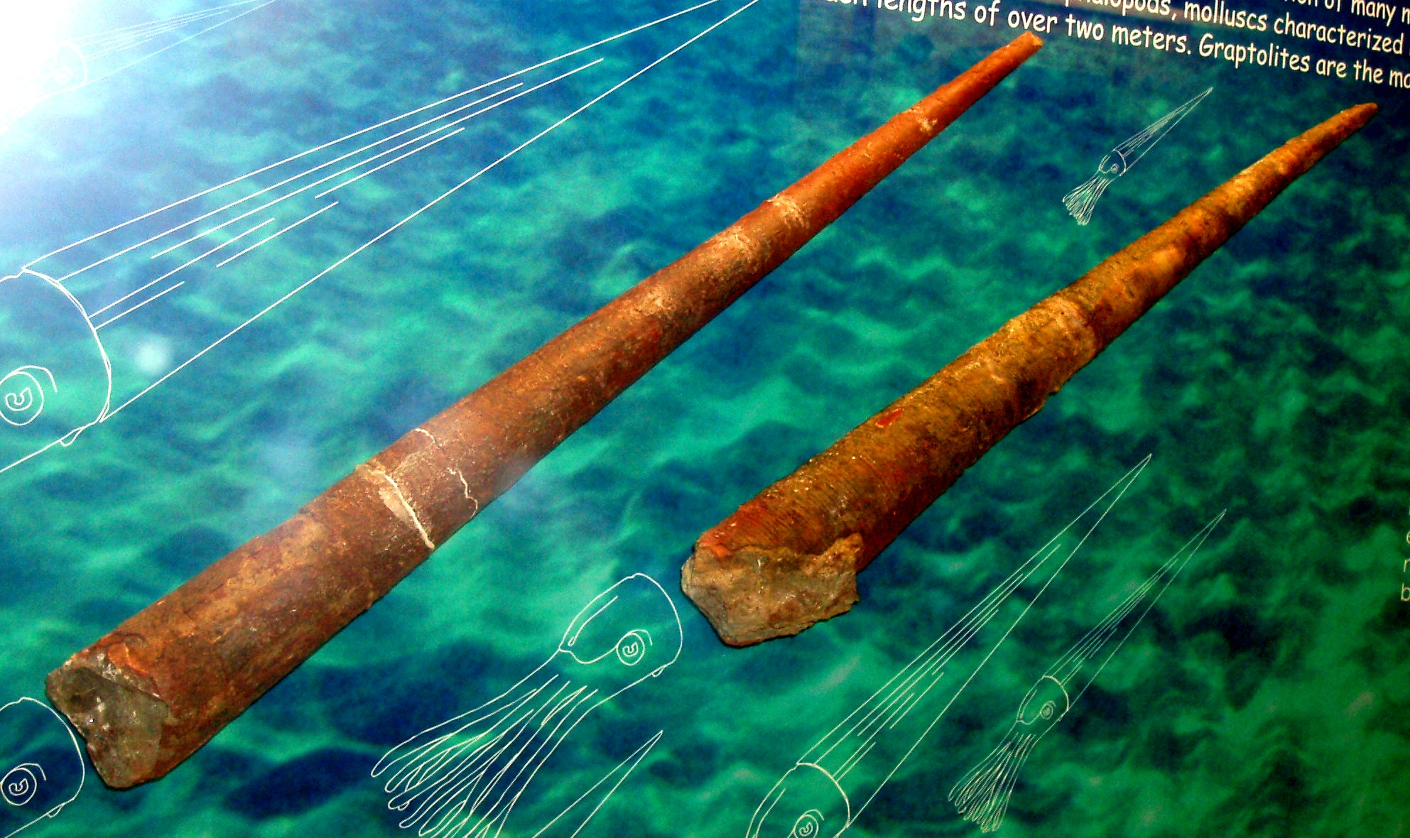 Fossil of Endoceras, an extinct orthocone cephalopod